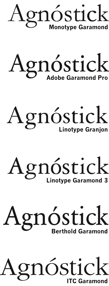 A remake of Many types of garamond.gif with the names a bit clearer and easier to read.